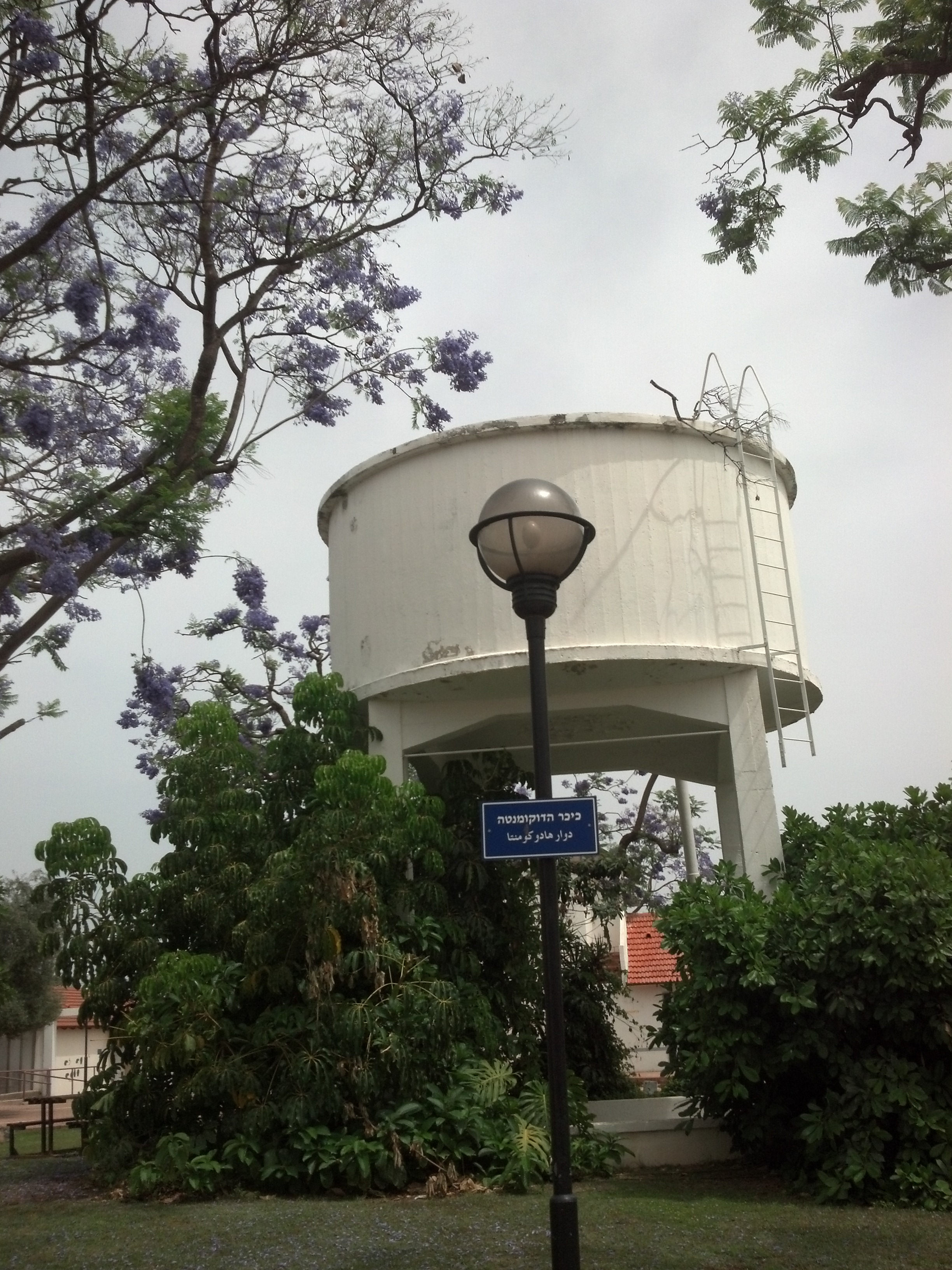 The water tower in Klmania, Israel